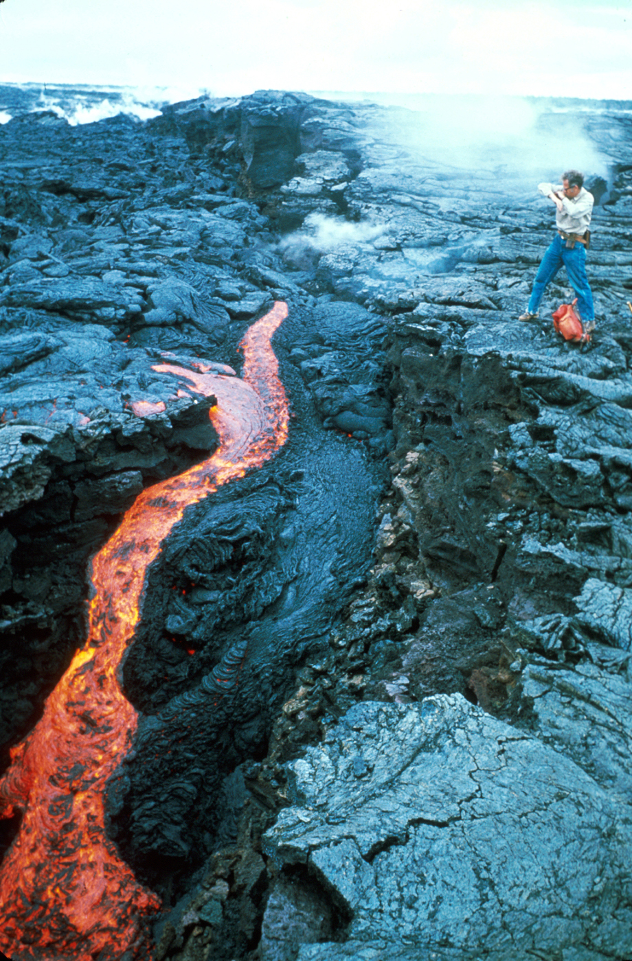 Hawaii Volcanoes National Park. 1972-1974 eruption of Kilauea Volcano. Scientist collecting pahoehoe on the south side of Alae Crater subsidence bowl. Photo by R.L. Christiansen, February 12, 1972. Image file: /htmllib/batch40/batch40j/batch40z/hvo00170.jpg